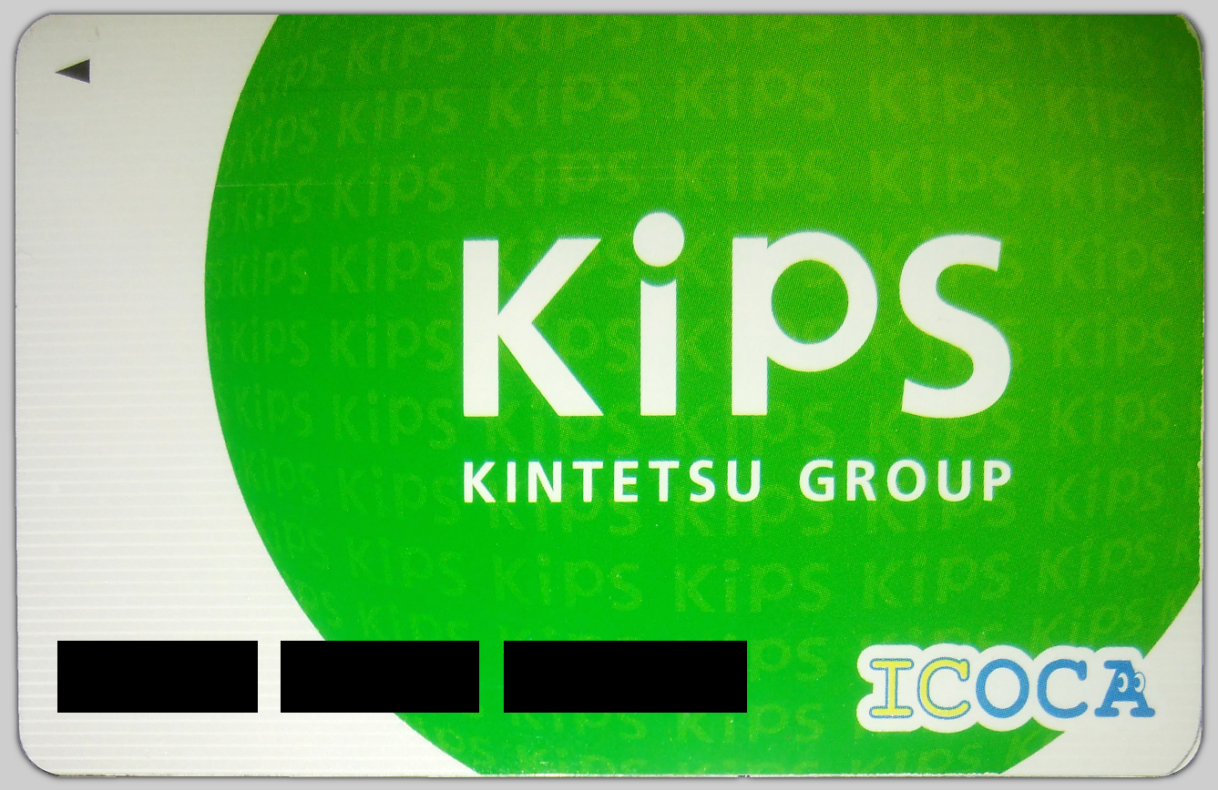 Kips Icoca card